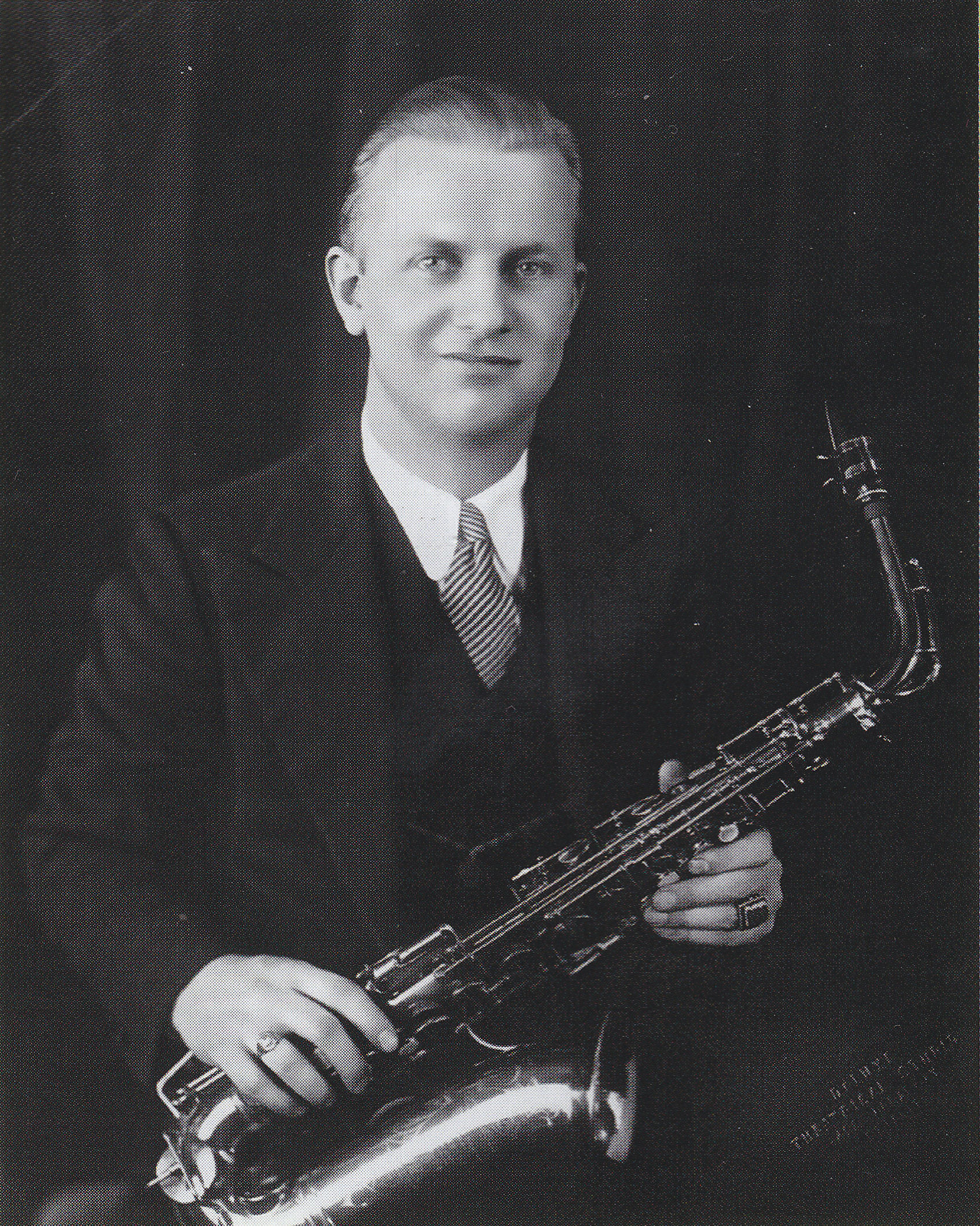 Bruno Laakko musican